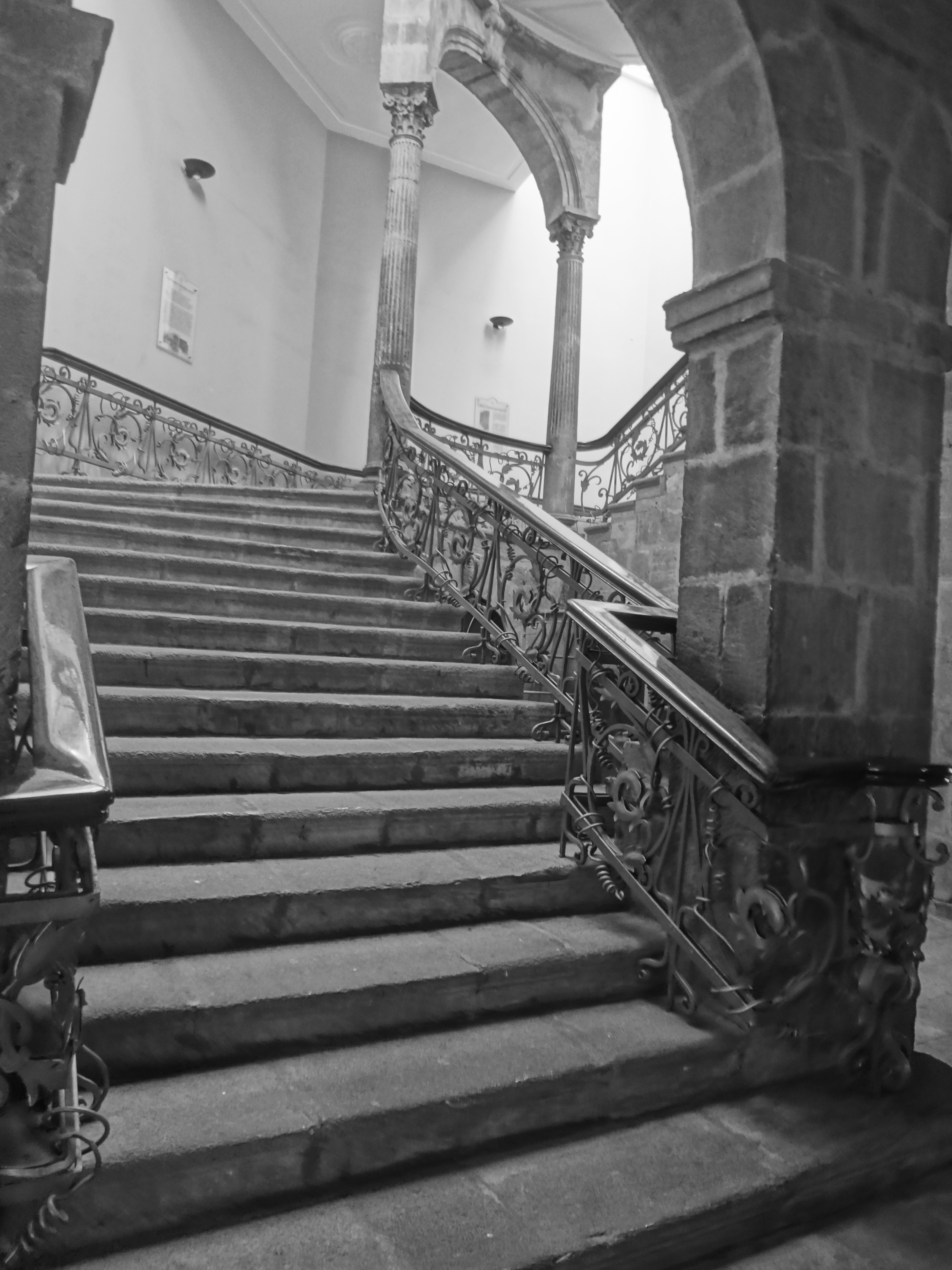 Interior photograph inside the Centro Cultural Metropolitano in the Historic Center of Quito. World Heritage Site by UNESCO El Centro Histórico de Quito Photography by David Adam Kess